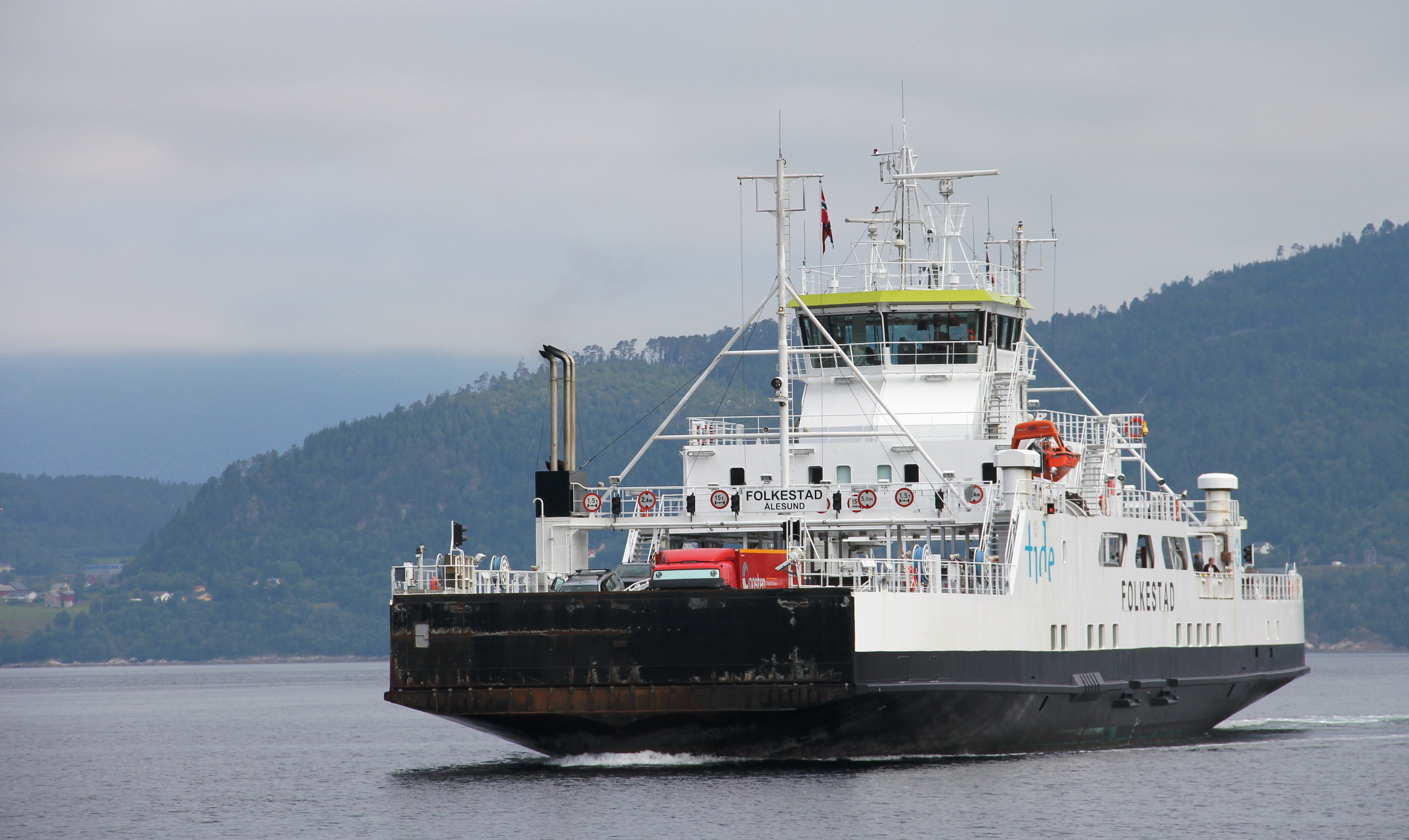 Ferryship M/F Folkestad, at Folkestad, Sunnmøre, Norway